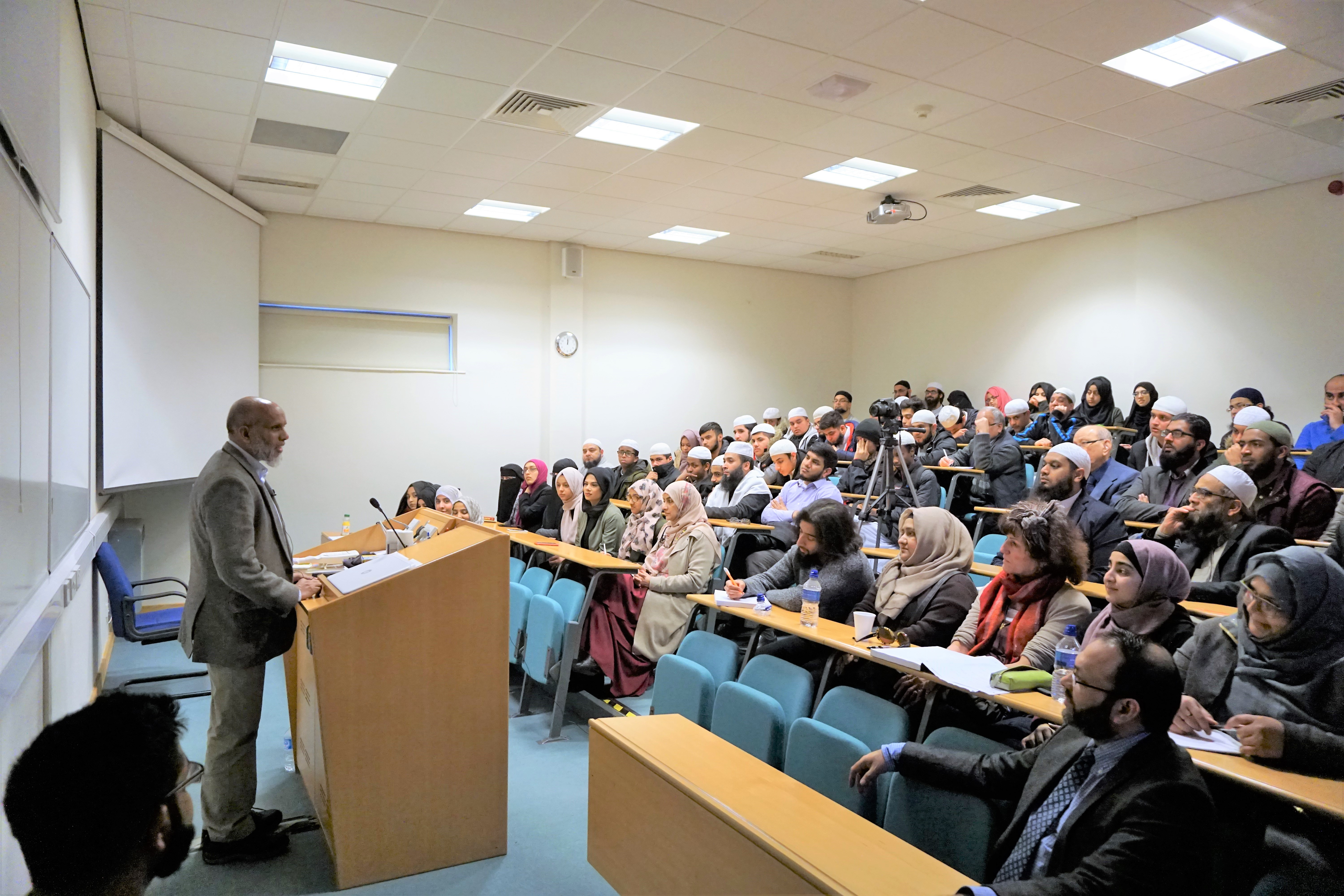 Dr Mohammad Akram Nadwi lecturing attendees at Markfield Institute Open Day (Feb 2017)